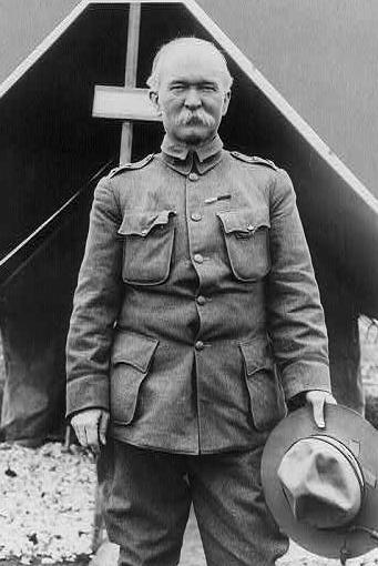 Comm. general, 2d Div., William Harding Carter, in uniform, in front of tent. San Antonio, Texas. Feb. 26, 1913.